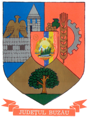 Communist coat of arms of Buzău County, Socialist Republic of Romania.